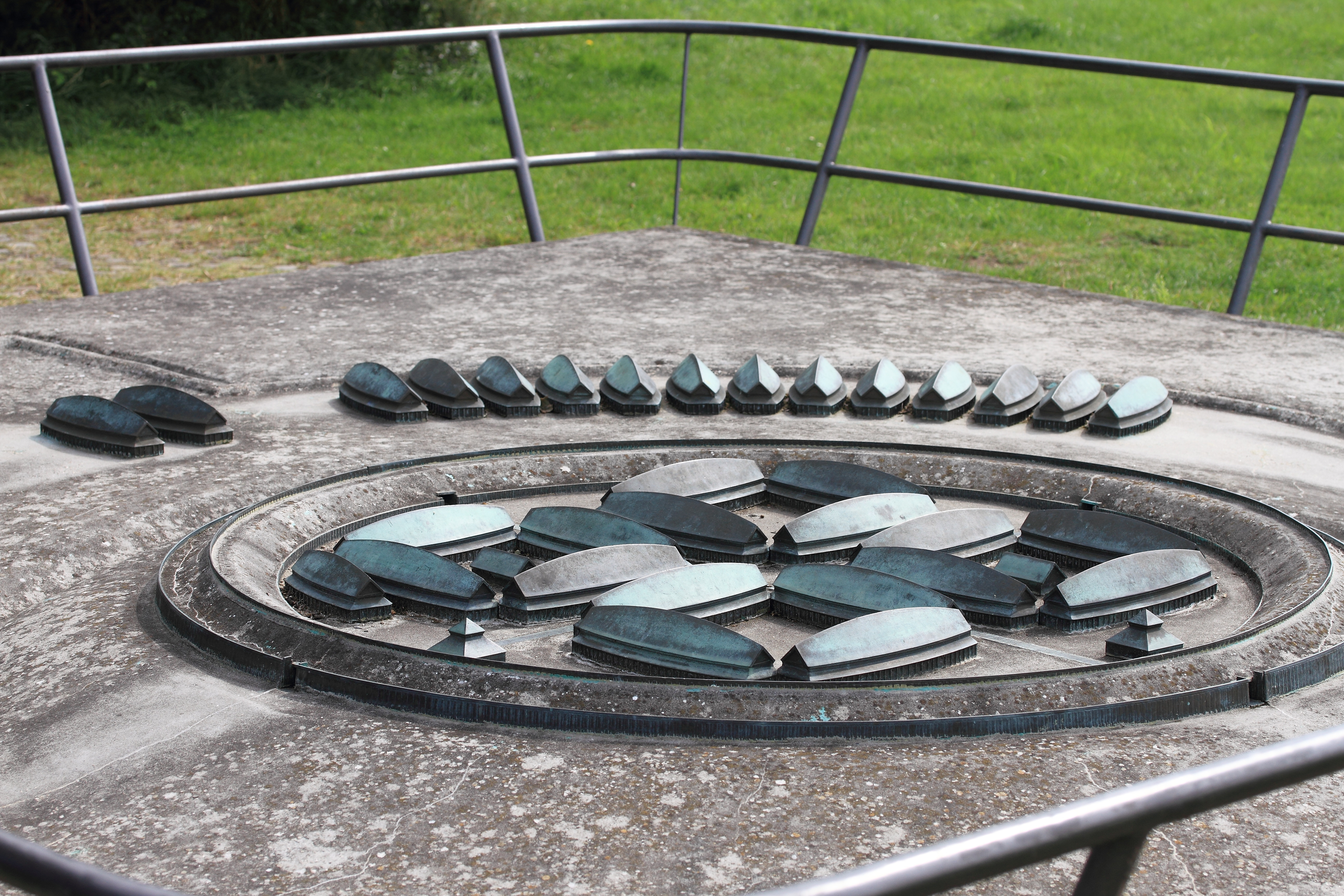 Model of the viking ring castle at the open-air museum Trelleborg (Slagelse), Denmark.